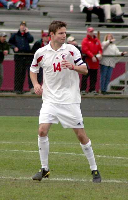 Drew Moor playing for Indiana University in 2004, by Rick Dikeman.